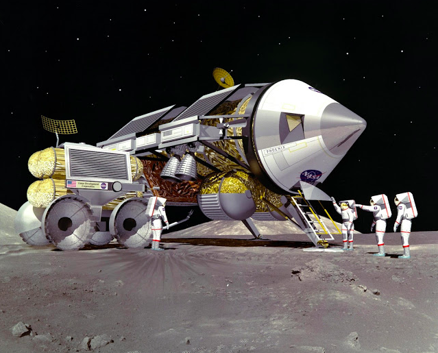 Shortly after touchdown, the teleoperated tanker rover moves into position beside the ILREC crew lander and extends an umbilical so that it can refill the lander's empty liquid oxygen tanks with LUNOX for the trip home to Earth. Note the position of the crew hatch and two of the lander's four engines.